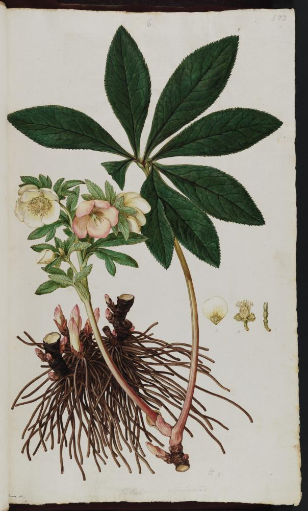 A digital image of a plate in John Sibthorp's Flora Graeca titled Hellebores officinalis (=Helleborus orientalis)